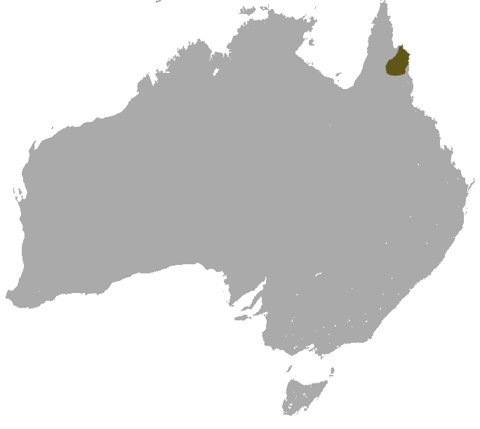 Godman's Rock Wallaby (Petrogale godmani) range